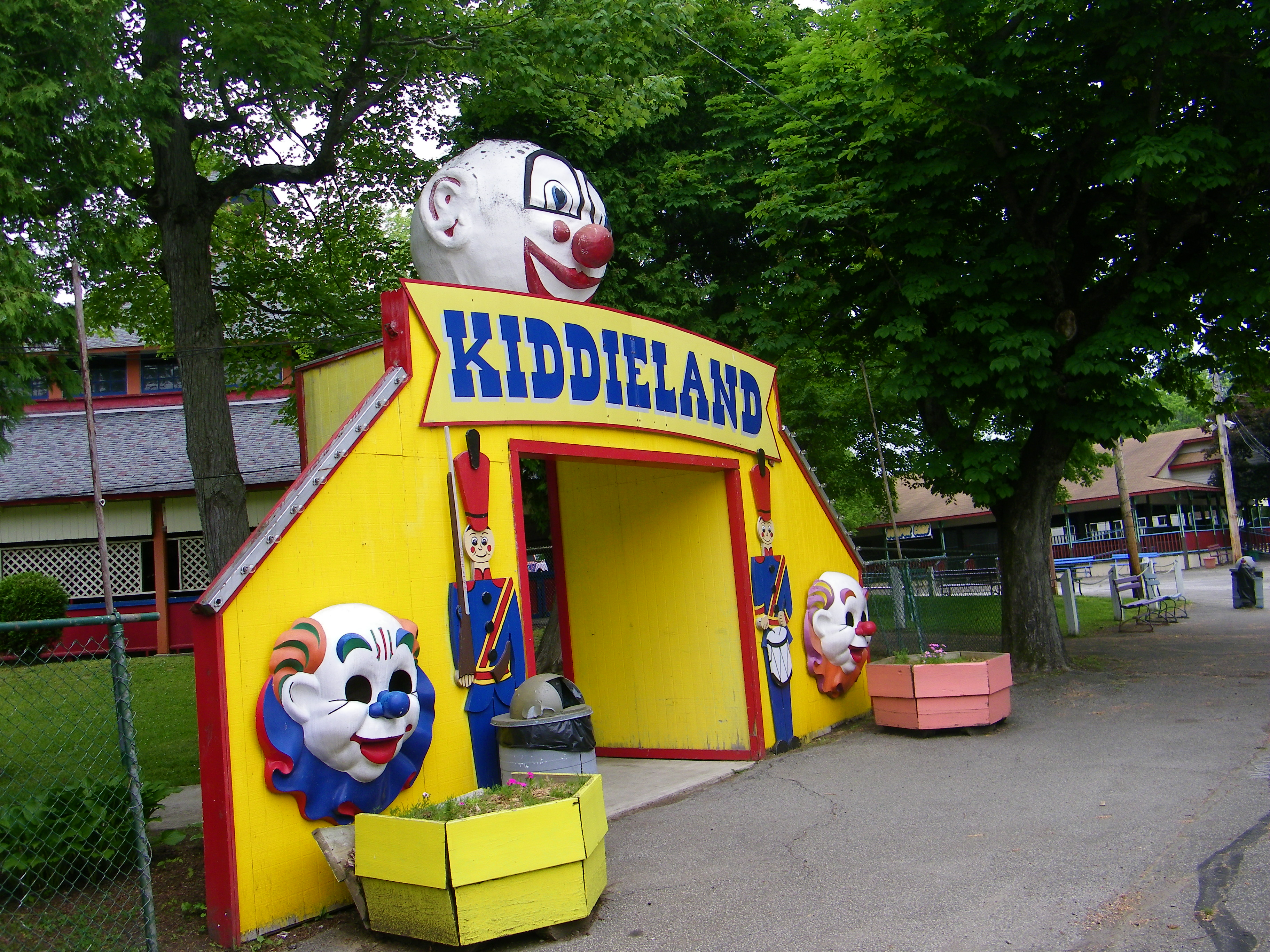 Conneaut Lake Park. We visited recently to see where my wife spent many summer weekends. There has just been another attempt to rescue the park. Lots of work ahead.